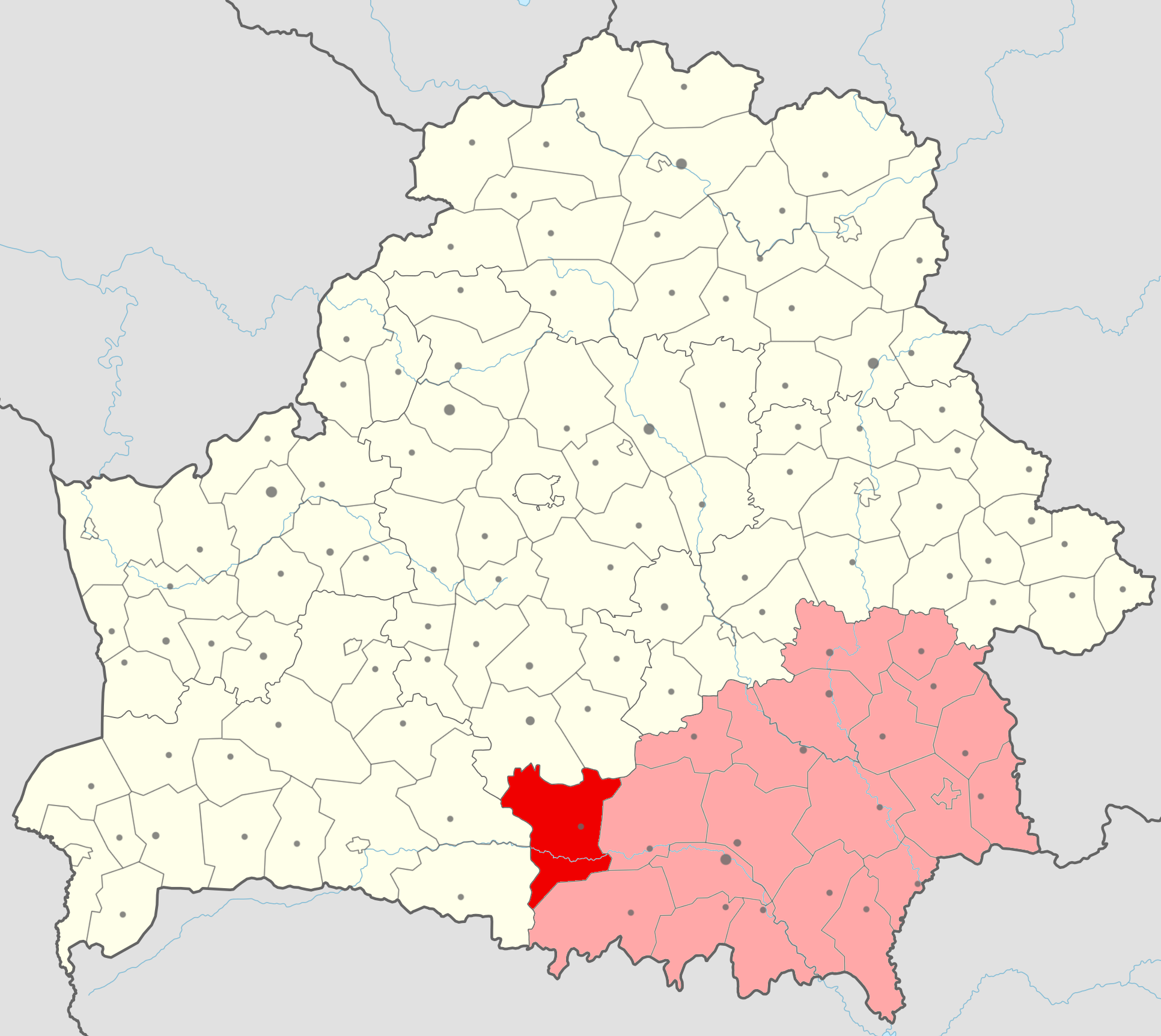 Location of Žytkavicki rajon (red) in Homieĺskaja voblasć (light red) in Belarus.